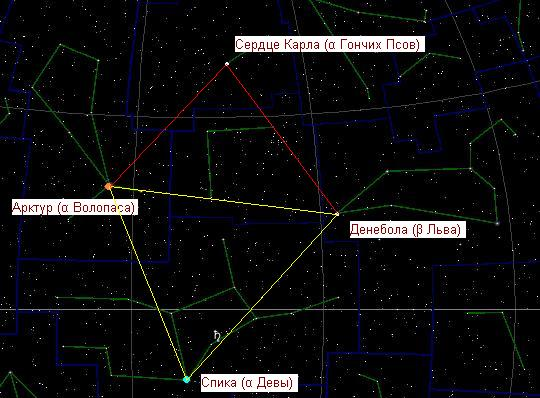 Spring triangular of the stars in the northern sky.